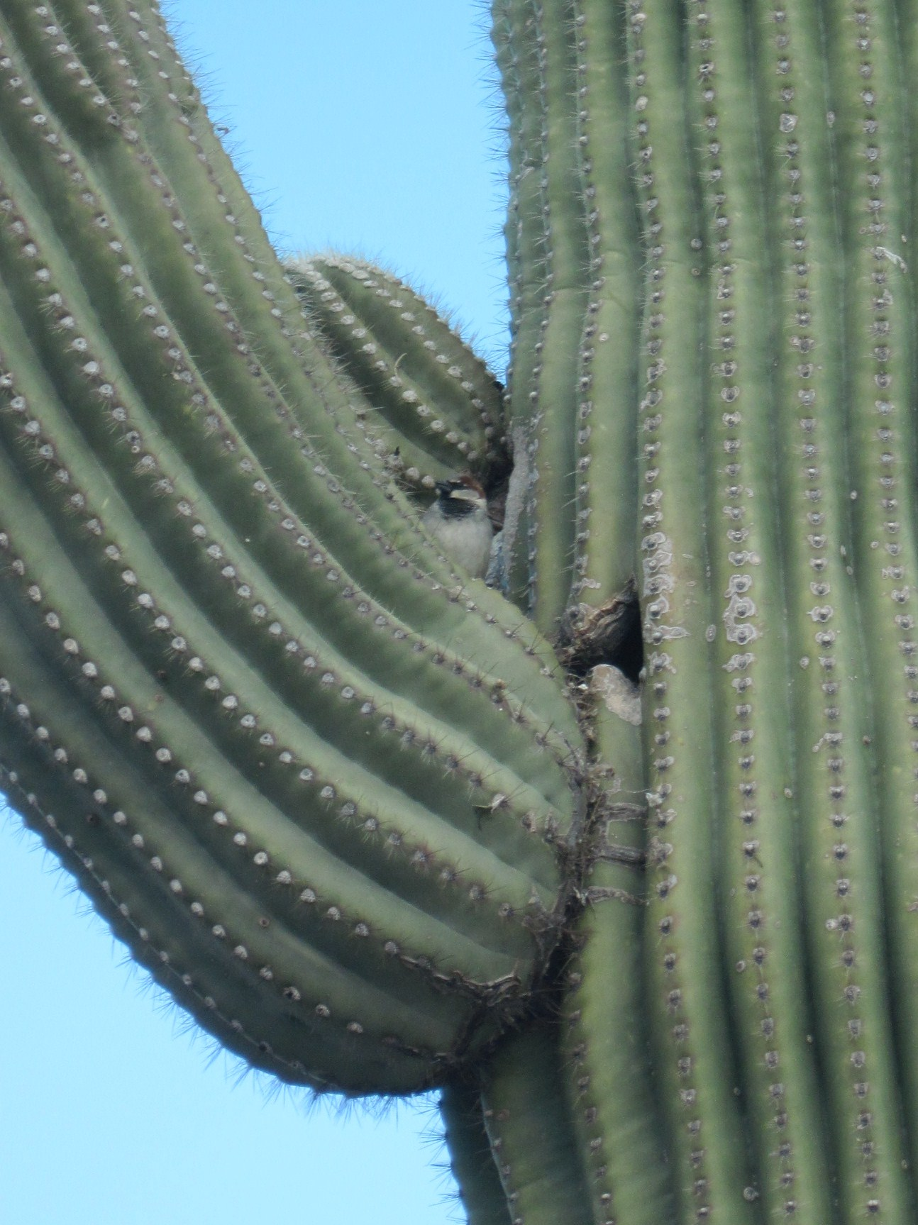 A male House Sparrow by its nest in a saguaro cactus in Catalina State Park, Oro Valley, Arizona, United States